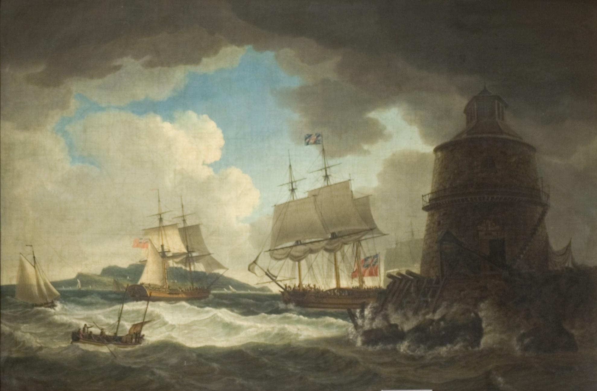 The arrival of HMS Dorset, the royal yacht at the disposal of the Lord Lieutenant of Ireland, in the Bay of Dublin. The yacht flies the Union flag at its mast head, indicating that the Lord Lieutenant may be on board. The 18th-century landmark of Poolbeg lighthouse, situated at the end of the North Bull wall of the Bay, is on the right. It is likely that Serres painted this work as a result of his visit to Ireland between 1787-88 and used it in his bid to acquire the royal position of Marine Painter to H.R.H. the Duke of Clarence which he was granted in 1789. The painting, dated 1788, was probably executed as a result of Serres’ trip to Ireland between 1787-88. In all likelihood it derives from a drawing, dated 1787, in the National Maritime Museum (The Dorset yacht leaving Dublin harbour, PAG9727). In contrast to the V&A work, this shows the Dorset heading out of port. Possible correct title: HMY Dorset